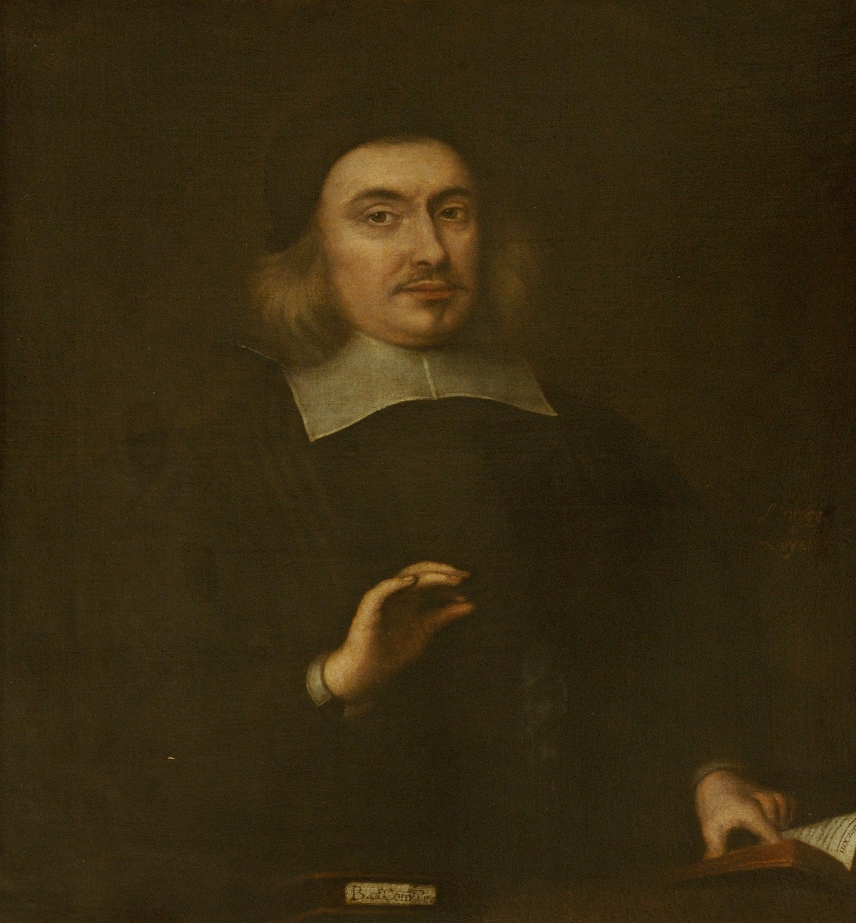 Portrait of John Conant